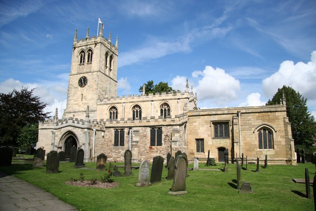 St.Peter's church South Yorkshire's oldest church with Saxon origins as early as 740 AD. Much of the nave is 12th century with later medieval additions